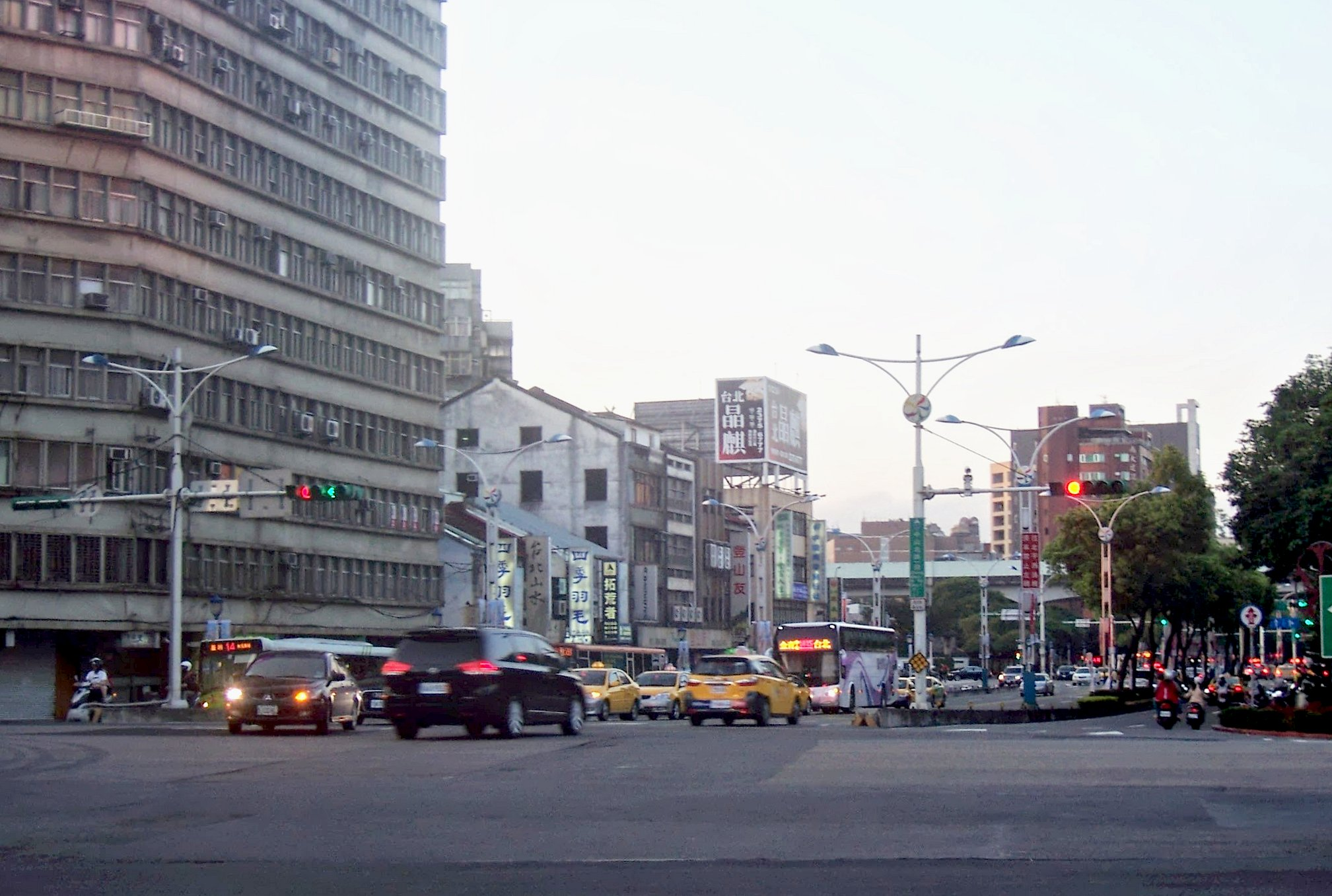 The east end of Provincial Highway 1A in Taiwan. It's also the south end of Zhongshan North Road, Sec. 1, Taipei City.